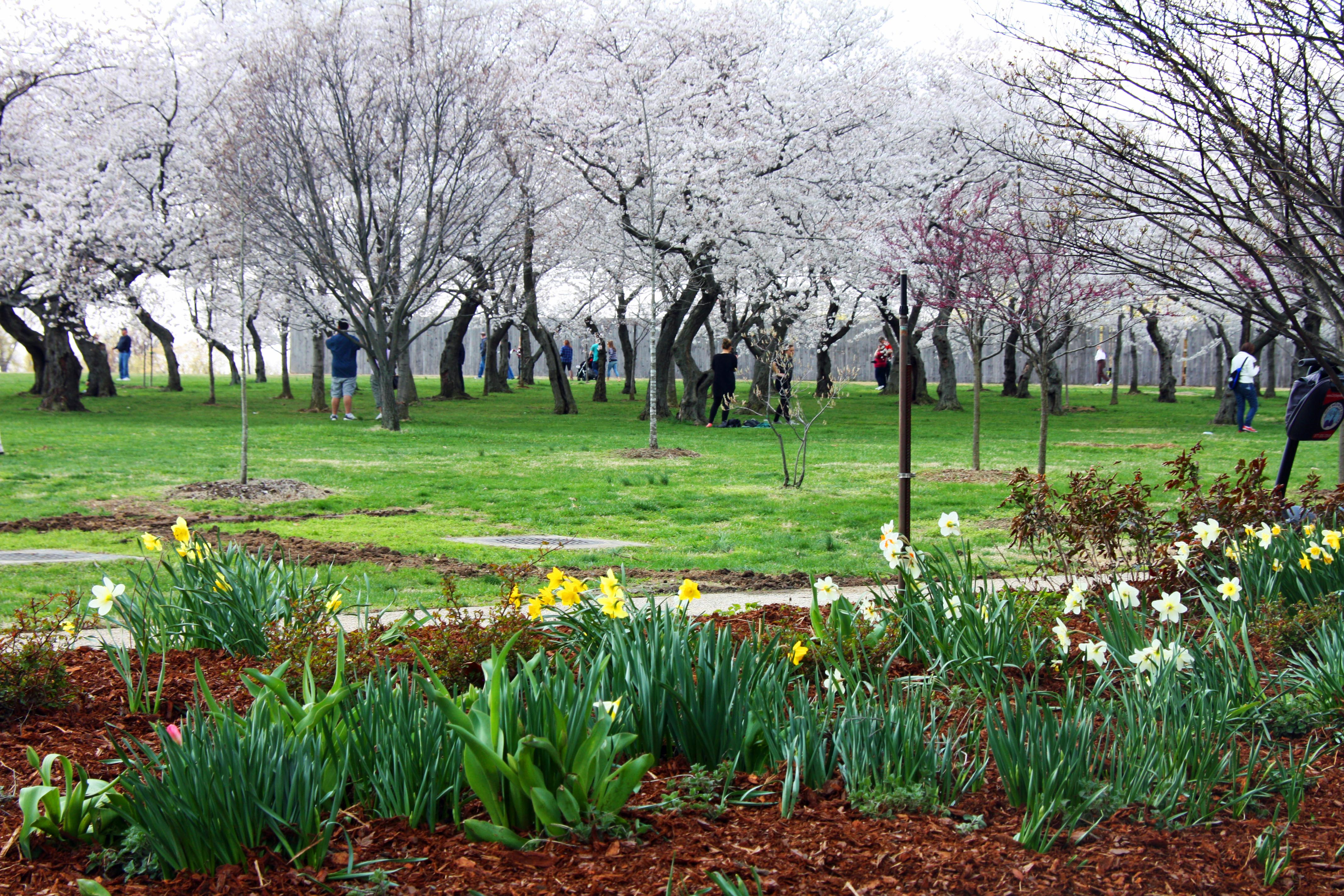 The German-American Friendship Garden in spring 2014, after its restoration.